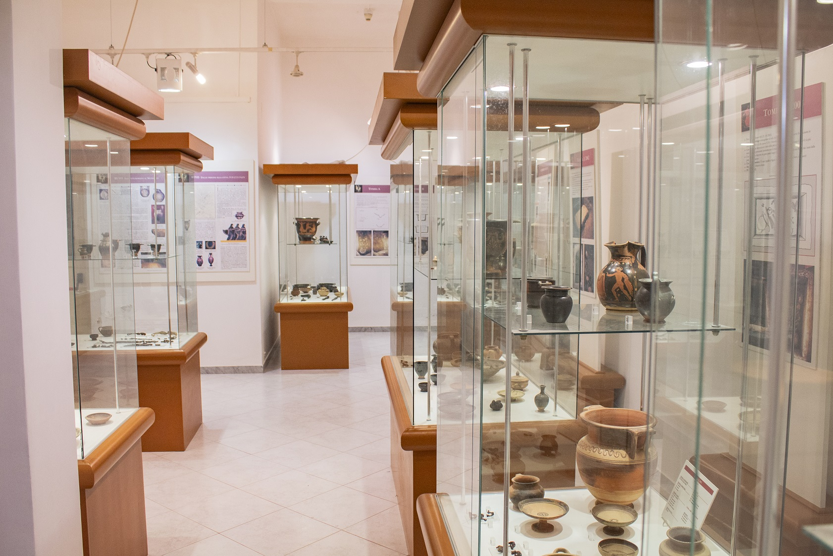 Museo Archeologico di Bitonto